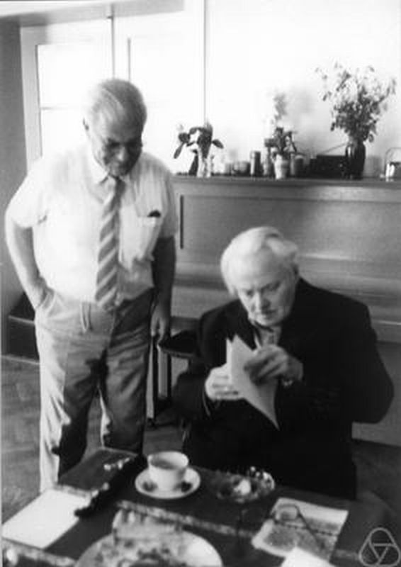 Herbert Grötzsch, Horst Tietz (left) on the 86. birthday of Grötzsch in Halle 1988